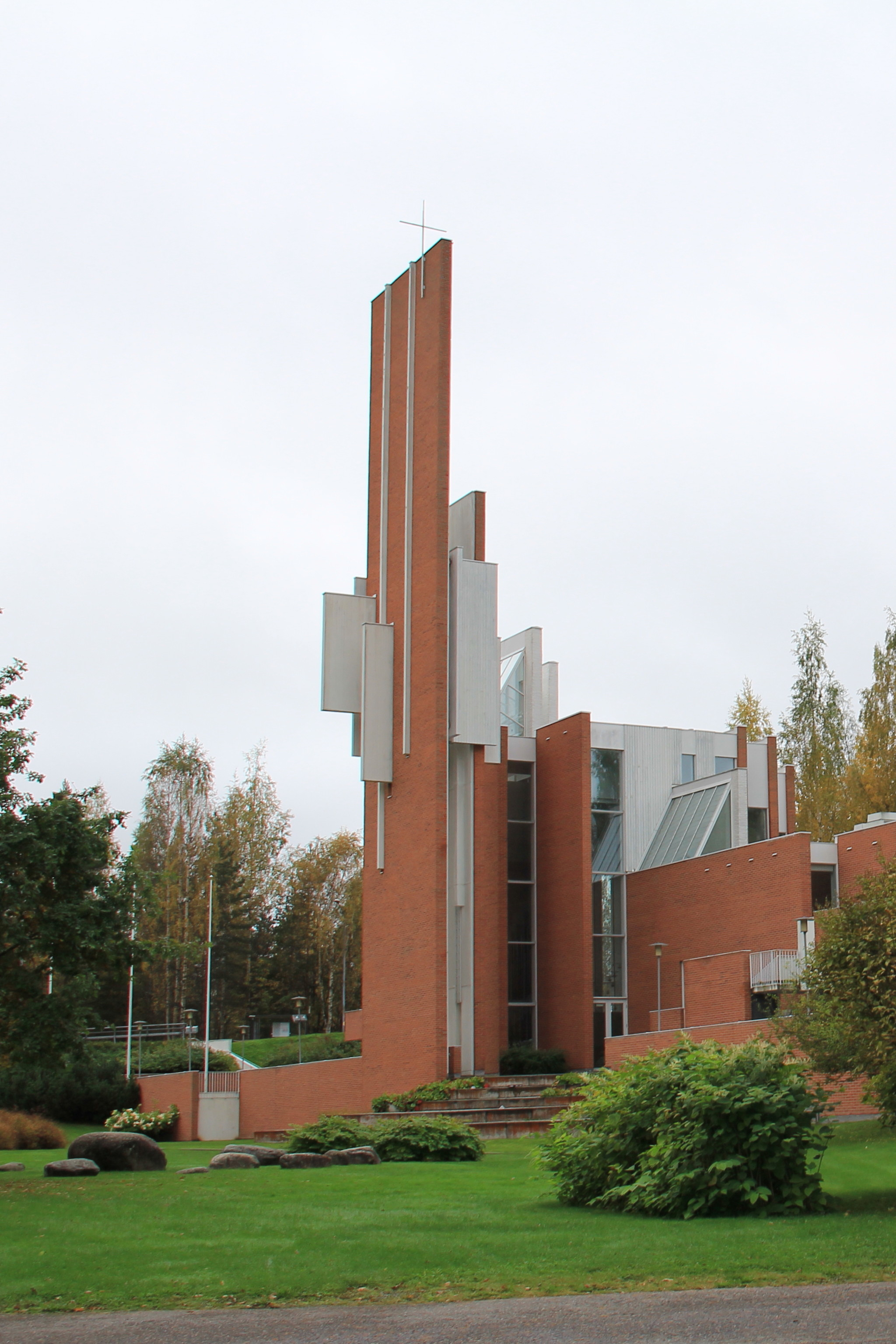 Männistö church, Kuopio, Finland. - Completed in 1992, designed by architects Juha Leiviskä and Pekka Kivisalo. - Seen from northeast.